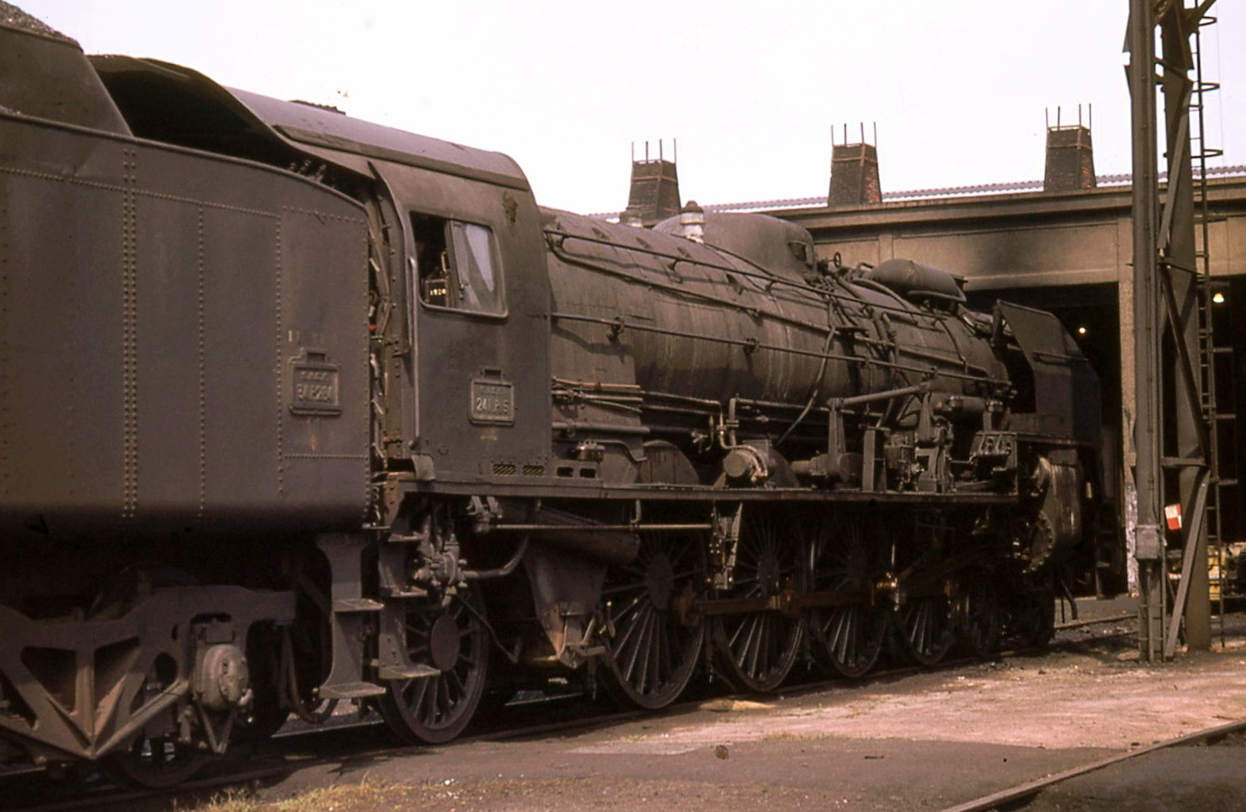 Last Jour de Fete for the 241Ps, 15 August 1969 on the Le Mans-Nantes line. 241P5 at Nantes-Blotterau